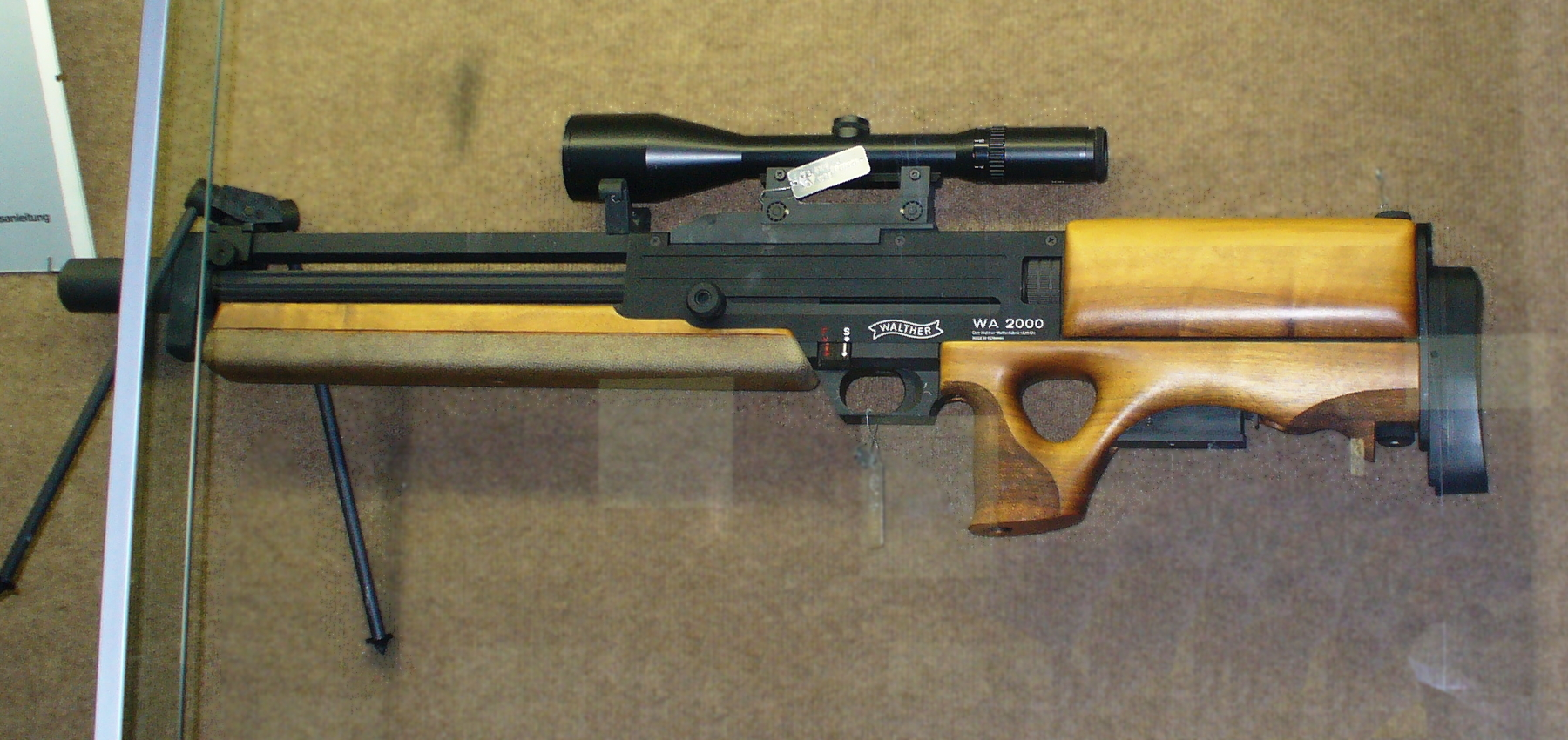 Walther WA 2000, German sniper rifle. On display in Wehrtechnische Studiensammlung Koblenz, Germany